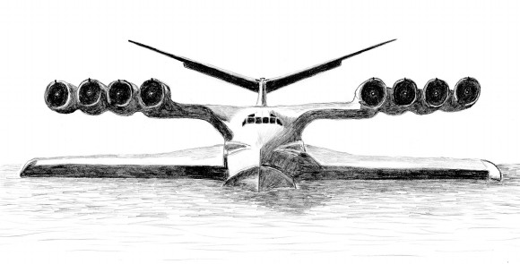 "Kaspian Monster" (КМ)